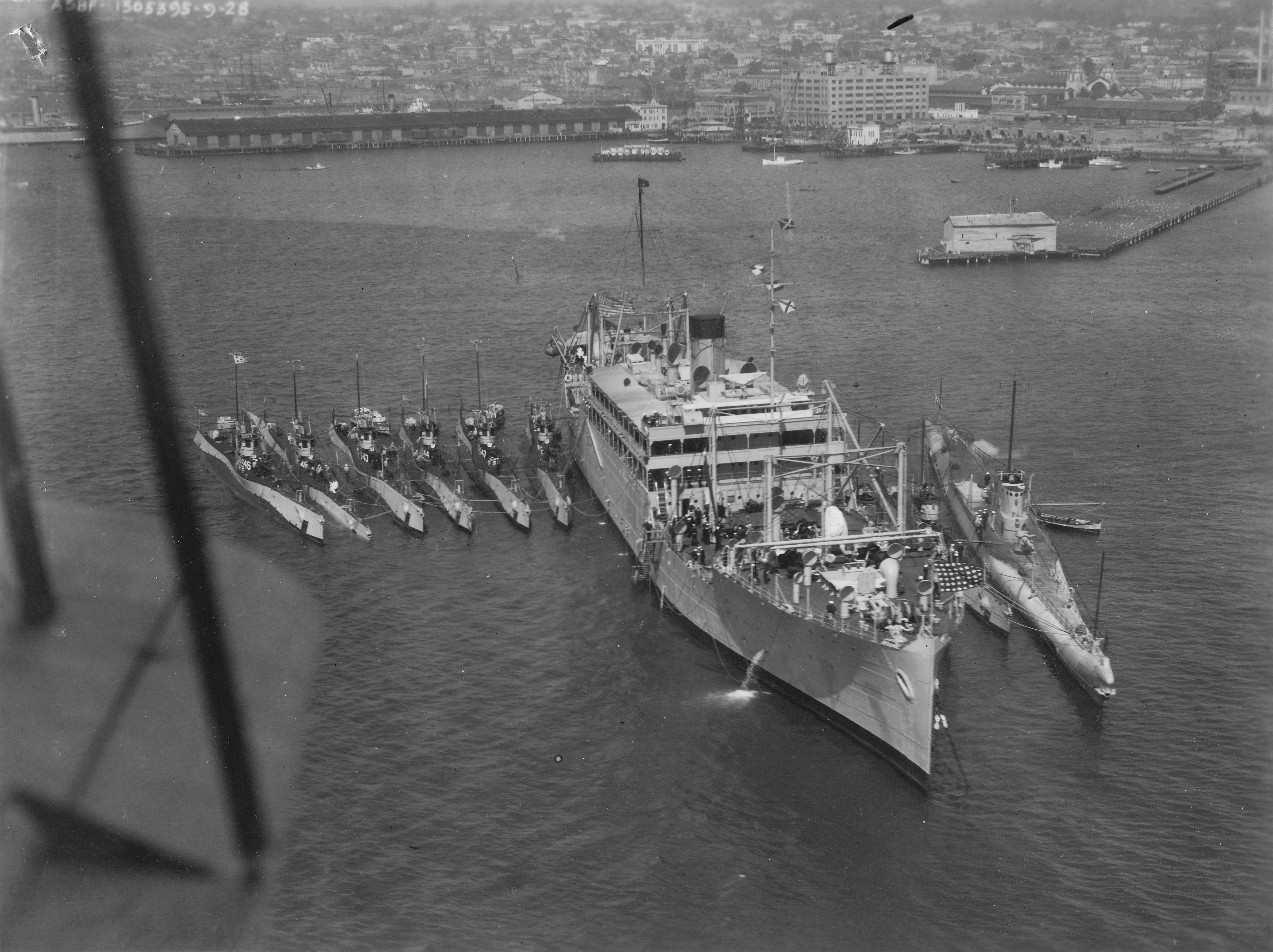 Aerial view of the USS Argonne in the harbor of the Destroyer Base, San Diego (today the Naval Base San Diego) in September 1928. Several submarines are alongside, on the starboard side six S class submarines (left to right, USS S-46, probably USS S-45, USS S-43, USS S-44, USS S-47, and unidentified), and on the port side, one more S class and one Barracuda type V boat (either the V-1, V-2, or V-3).